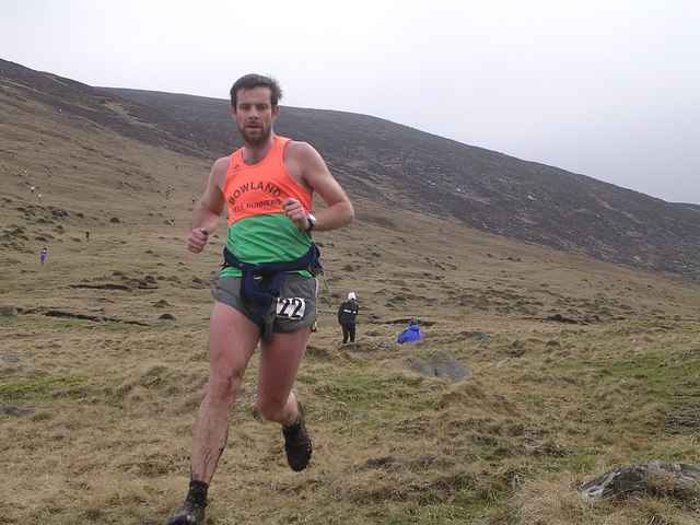 Slieve Bearnagh Hill Race. British Championship Race. Runner arriving at finish, looking back up the final descent off Slieve Meelmore.